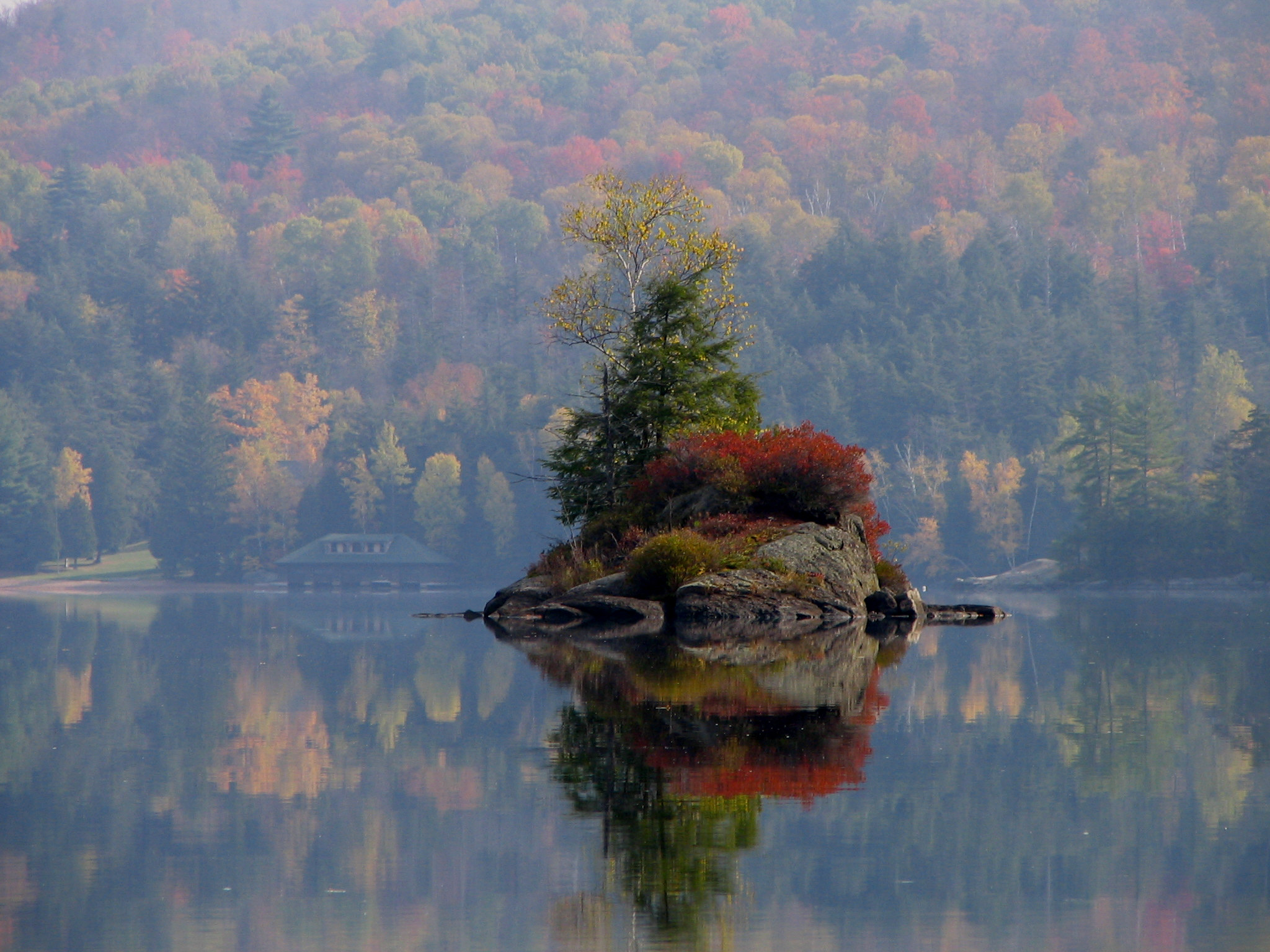 Island of Lower Saranac Lake, Adirondack Mountains, New York state, USA